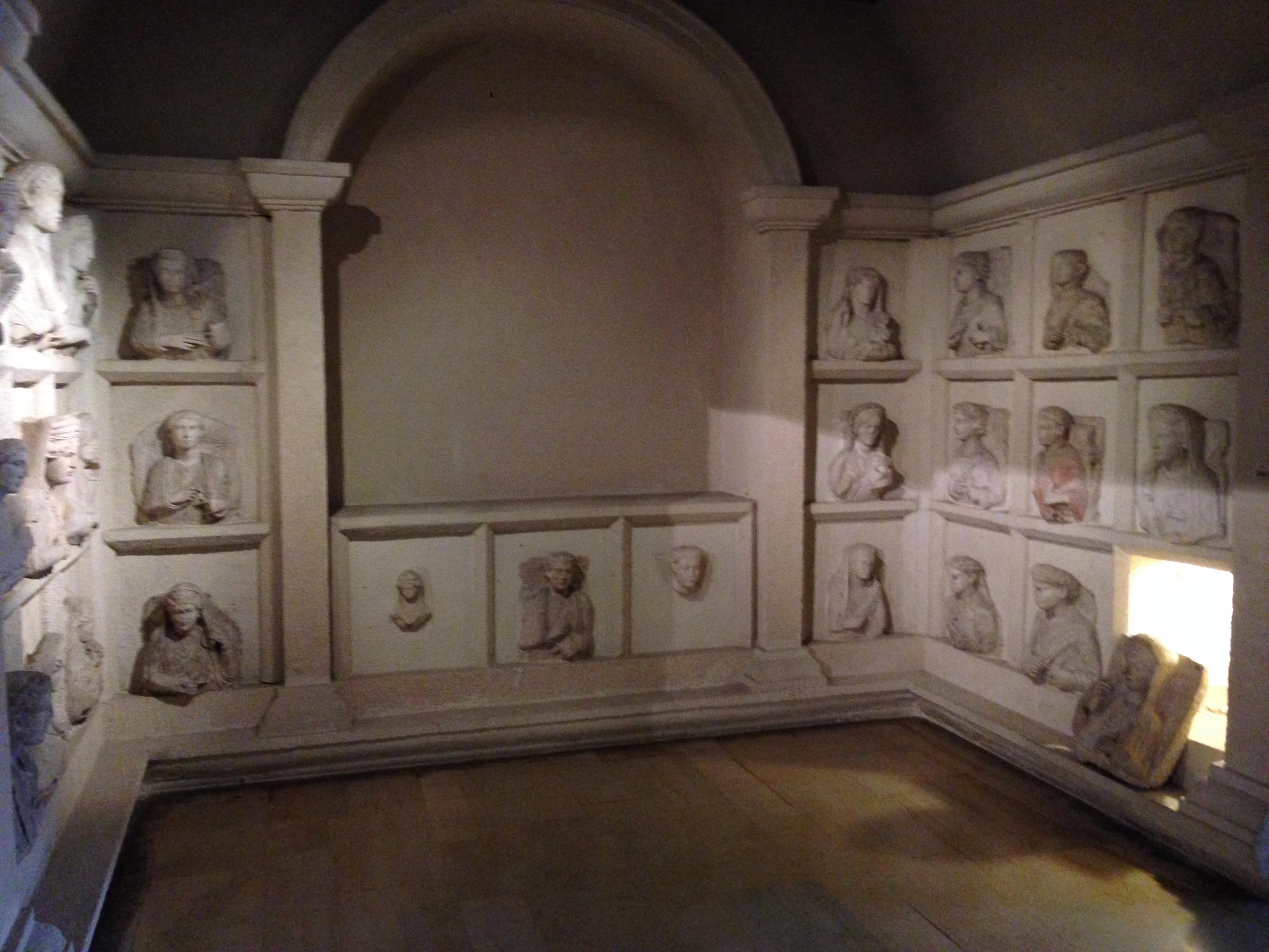 Palmyra tombs as displayed at the Istanbul Archaeological Museums